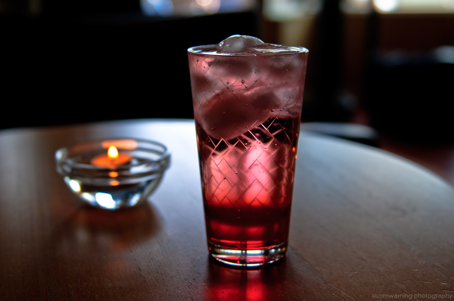 just the thing for a beautiful spring day. locate [?]